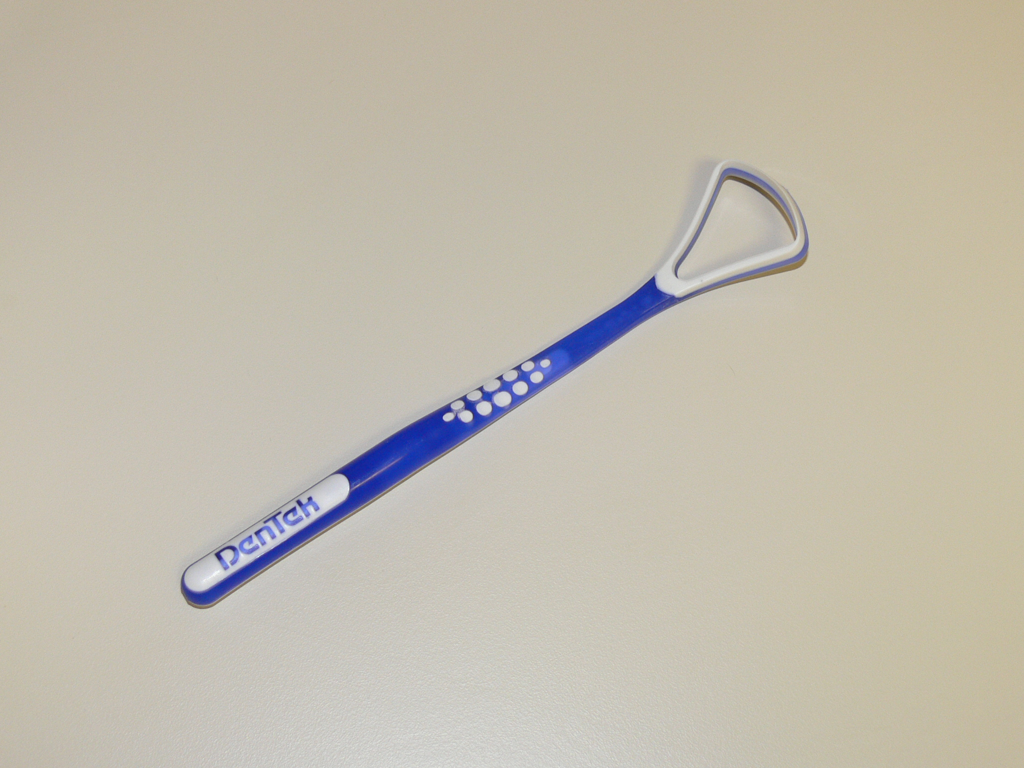 Example of a Tongue Scraper.